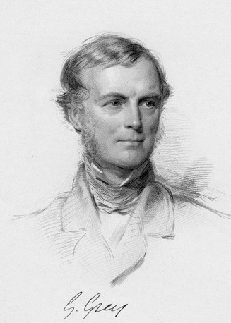 Sir George Grey, 2nd Bt (1799-1882), Home Secretary.